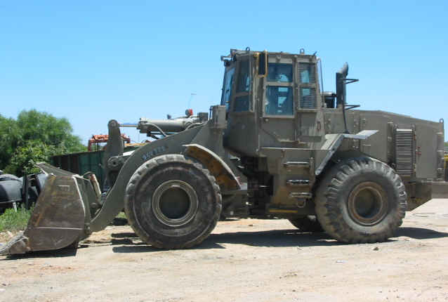 Armoured IDF combat engineering front loader